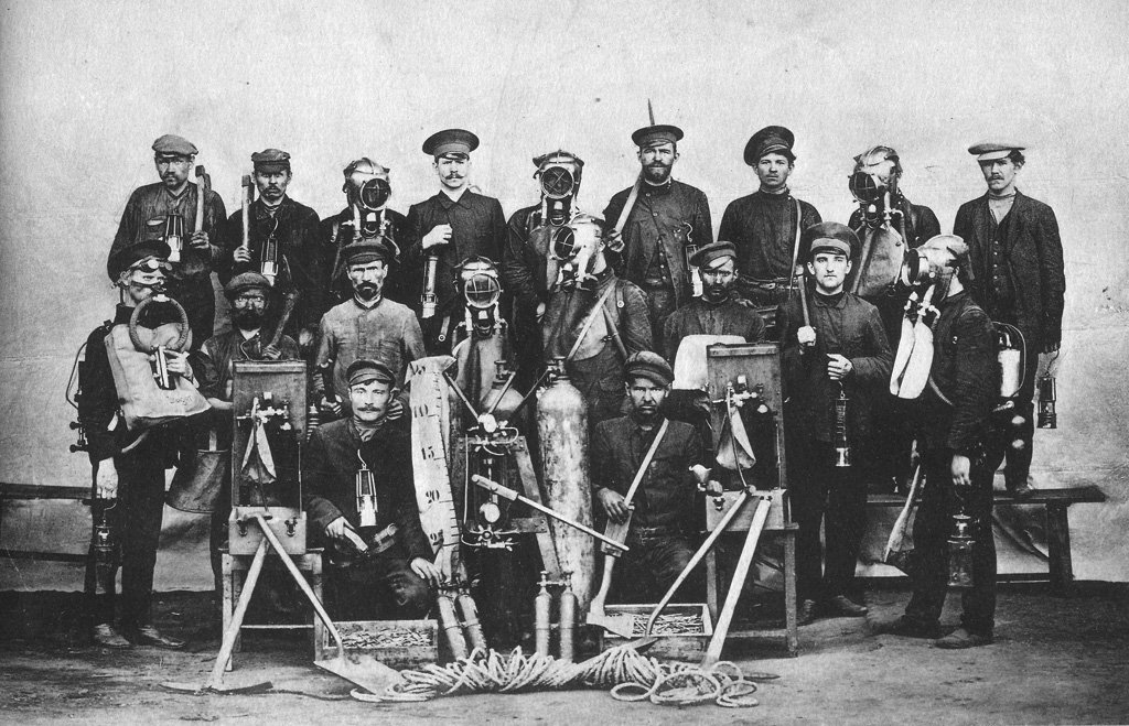 Mine rescue team in Kadievka (now Stakhanov, Ukraine)